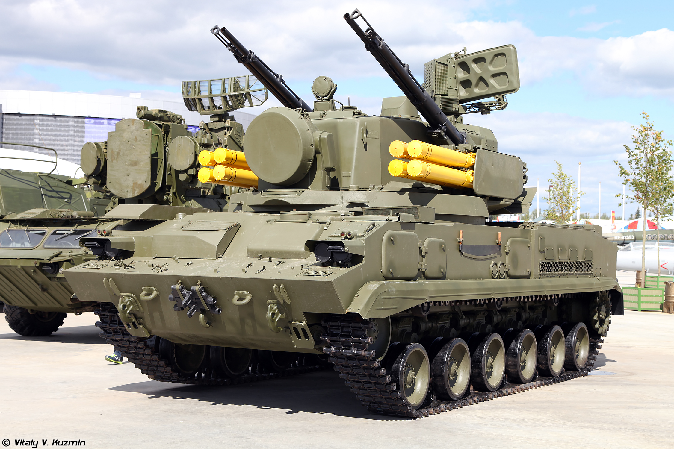 2S6 TELAR from 2K22 Tunguska system